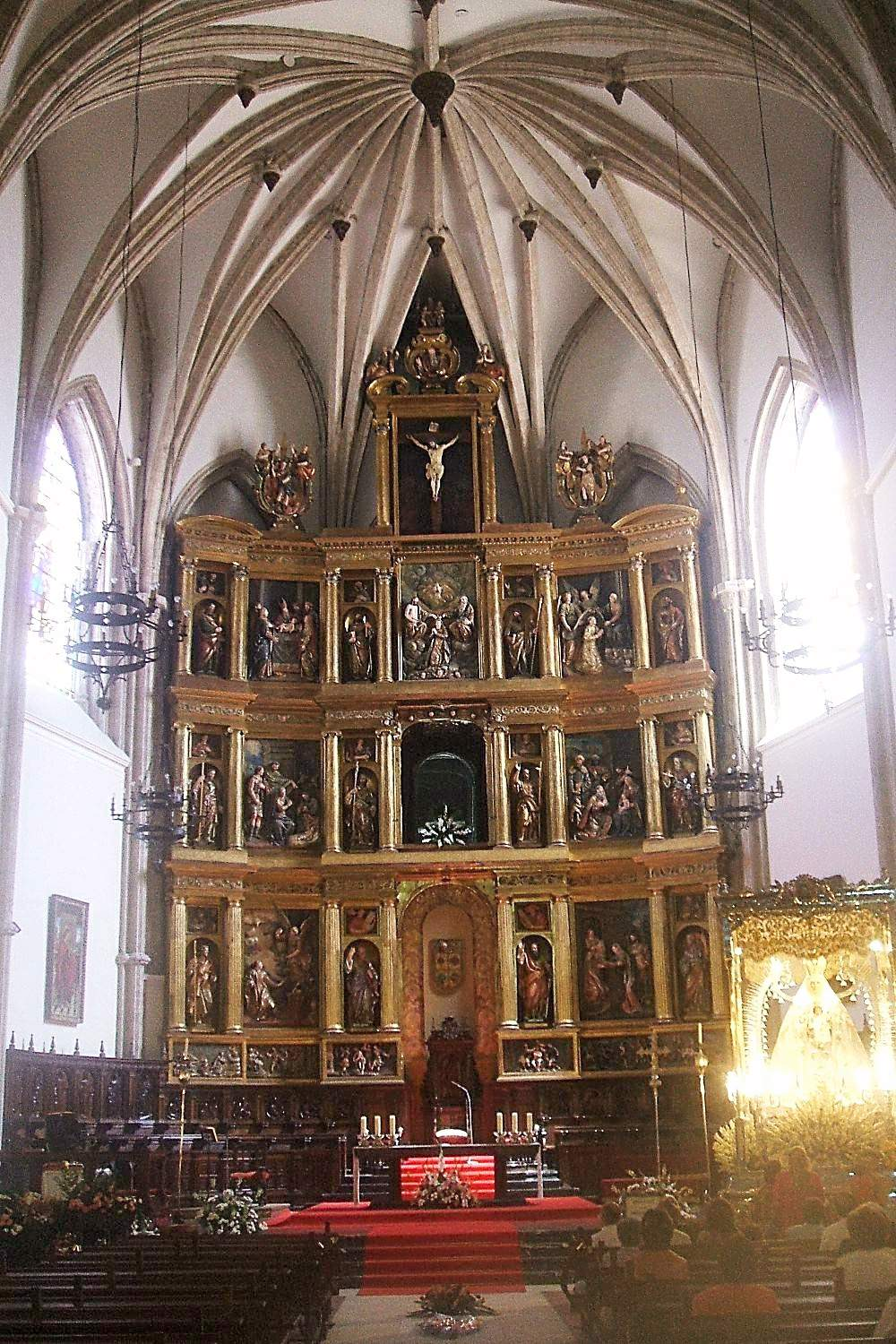 Catedral de Nuestra Señora del Prado, Ciudad Real